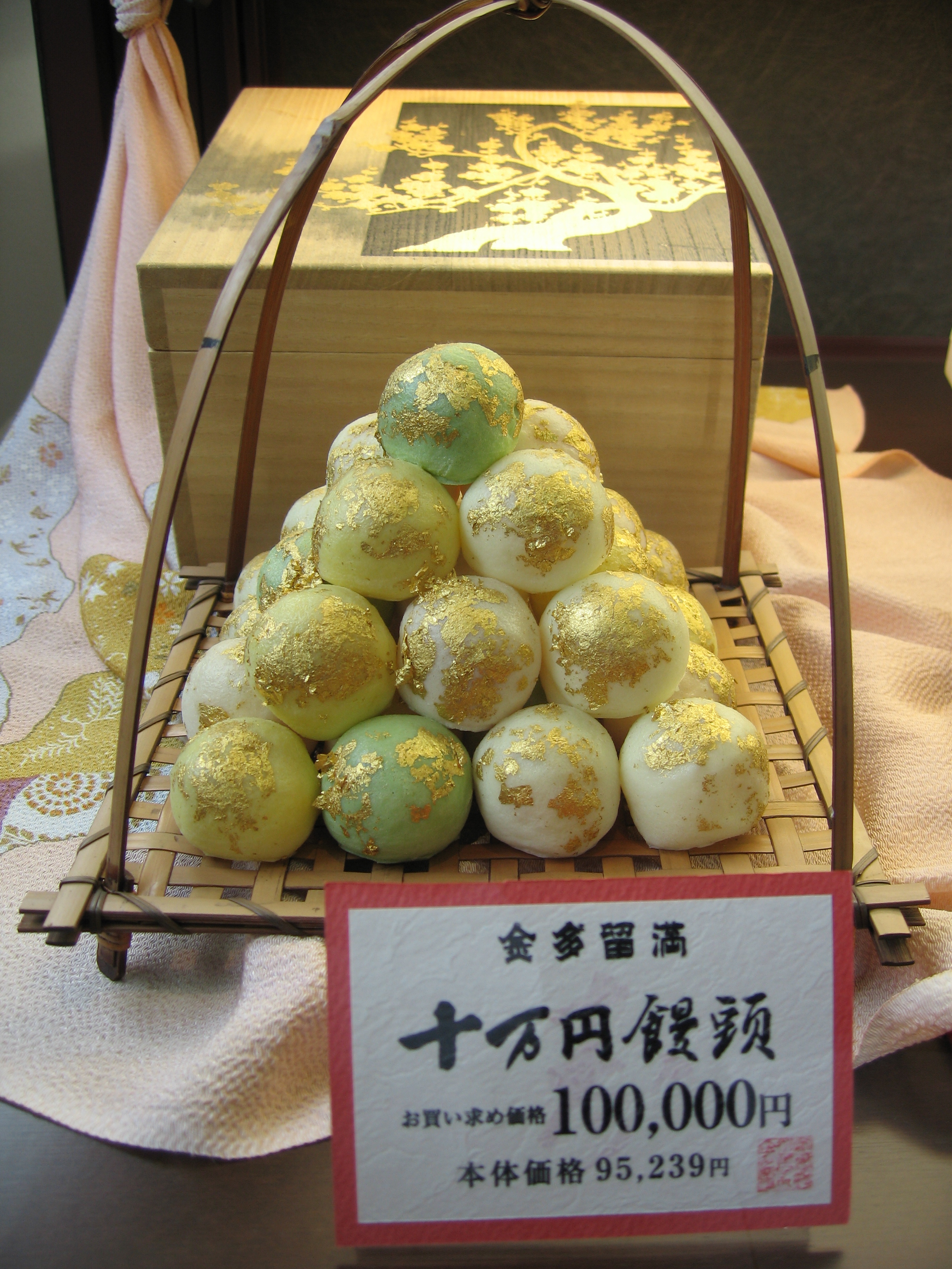 $1000 dollar Manjyu with gold leaves